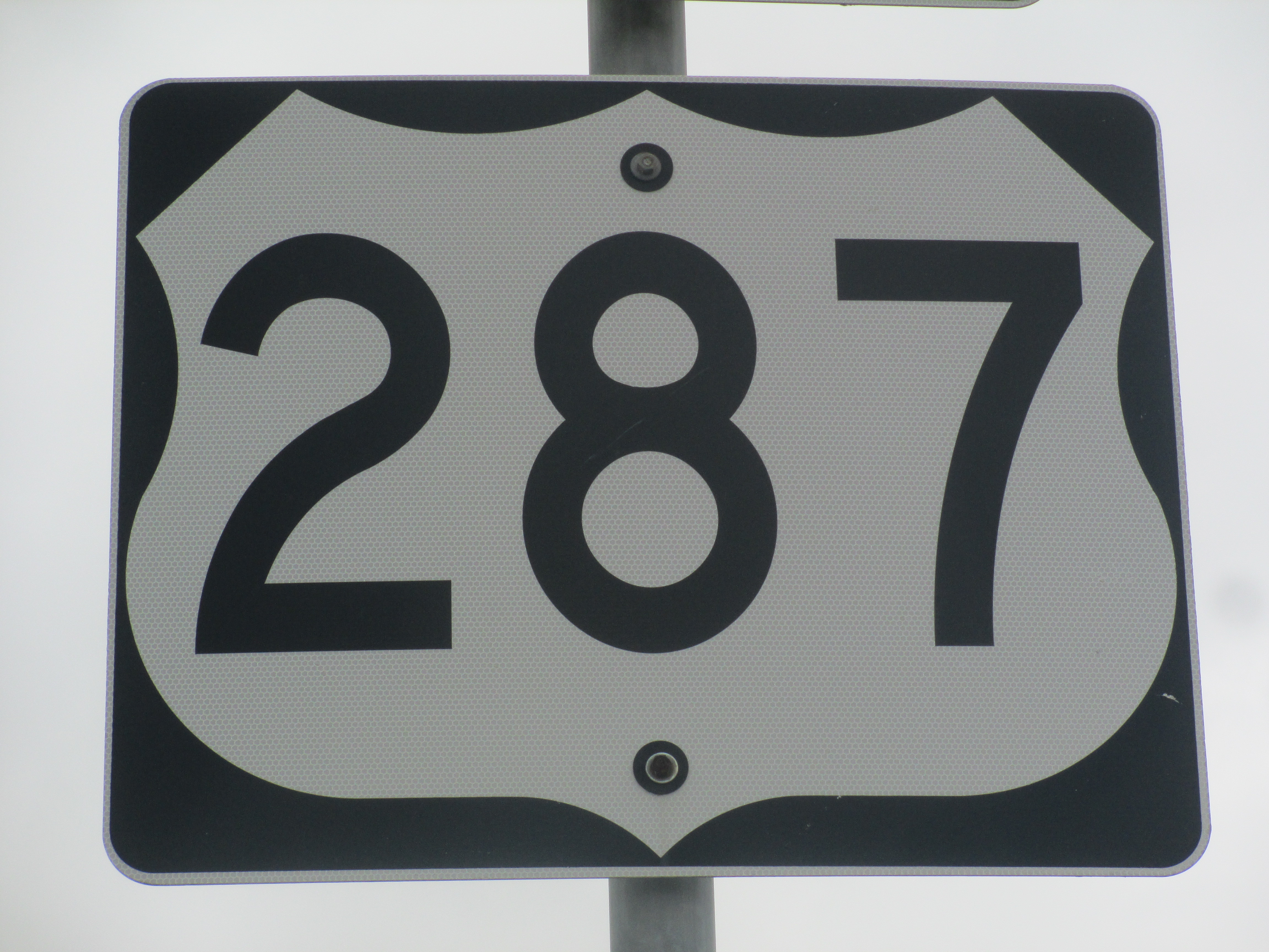 I took photo of U.S. Highway 287 sign near Rhome, TX, with Canon camera, April 7, 2013. Billy Hathorn (talk) 17:33, 12 April 2013 (UTC)